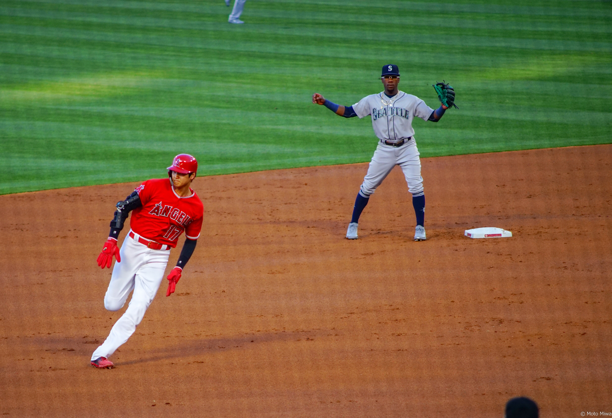 Shohei Ohtani runs the bases for the Los Angeles Angels during a 2019 game against the Seattle Mariners at Angel Stadium in Anaheim, California.